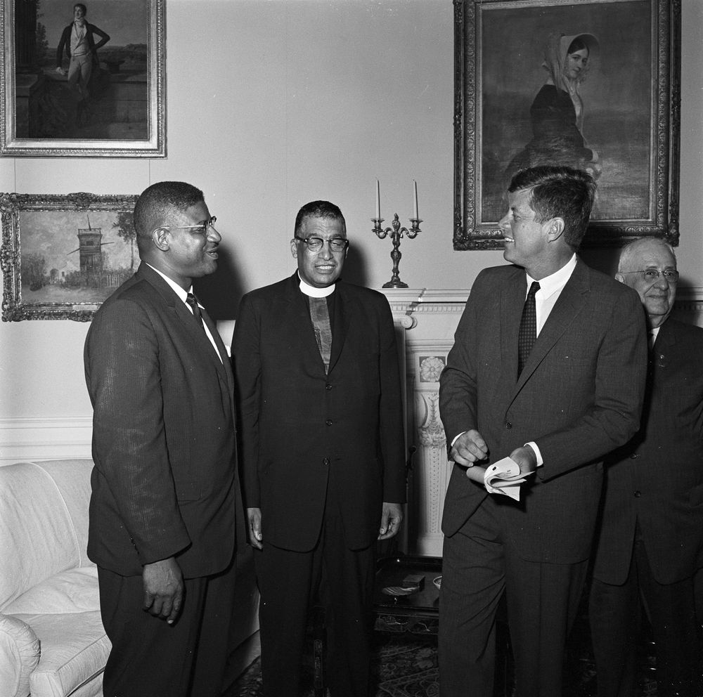 President John F. Kennedy meets with representatives from the National Association for the Advancement of Colored People (NAACP). (L – R) Dr. E. Franklin Jackson, President of Washington, D.C. NAACP branch; Bishop Stephen G. Spottswood, Chairman of NAACP Board of Directors; President Kennedy; Arthur B. Spingarn, former NAACP Vice-President. Oval Office, White House, Washington, D.C. (JFKWHP-KN-18351) -- from the White House Photographs collection at the JFK Library. original image at the library website